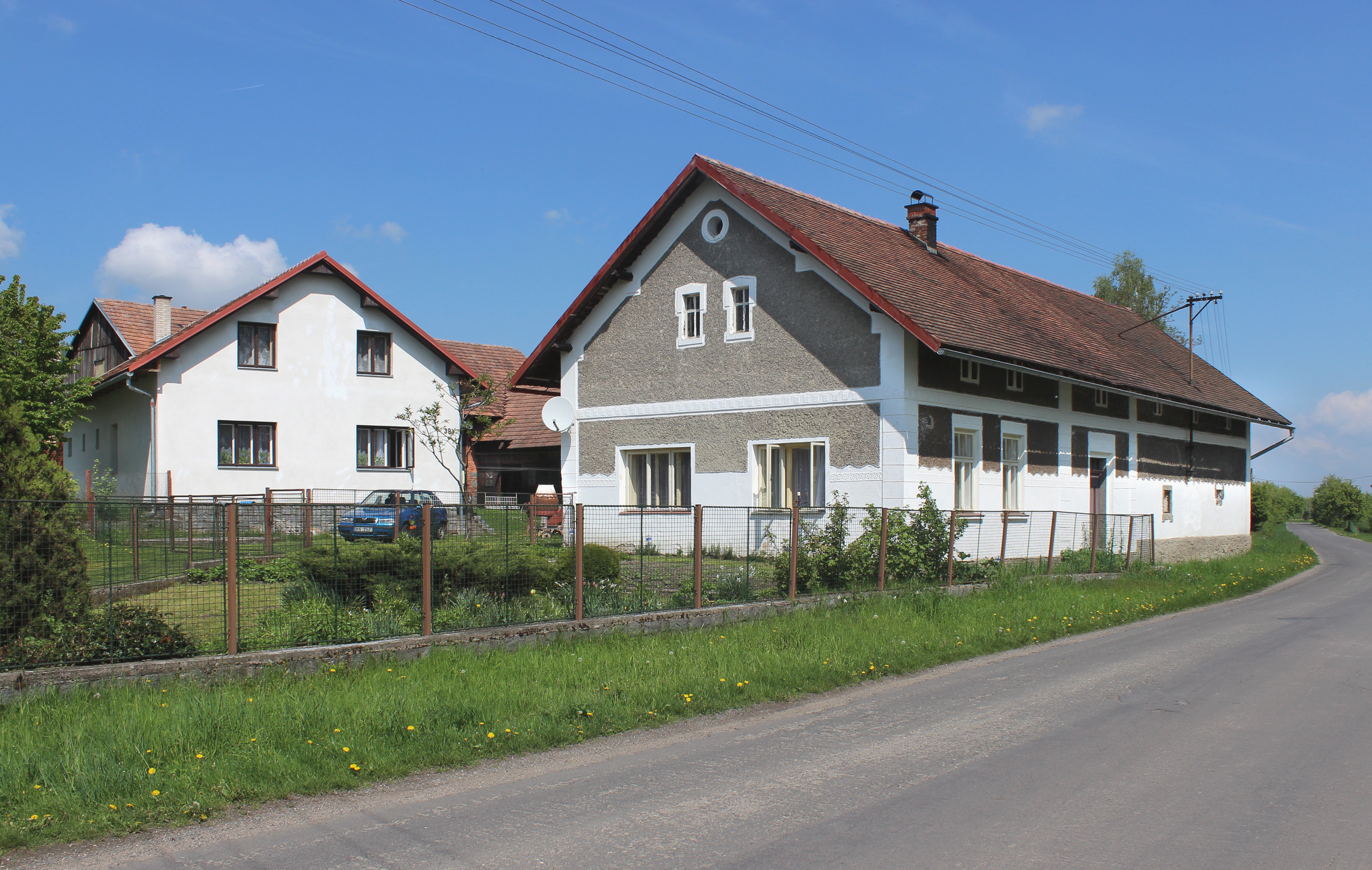 North part of Oldřetice, part of Raná village, Czech Republic